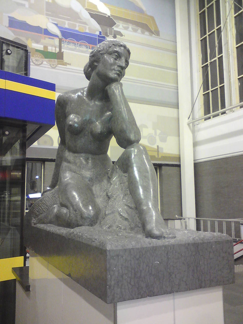 Name: Terugblik; Artists:Theo van Reijn; Year: 1939/1940; Street: Julianaplein